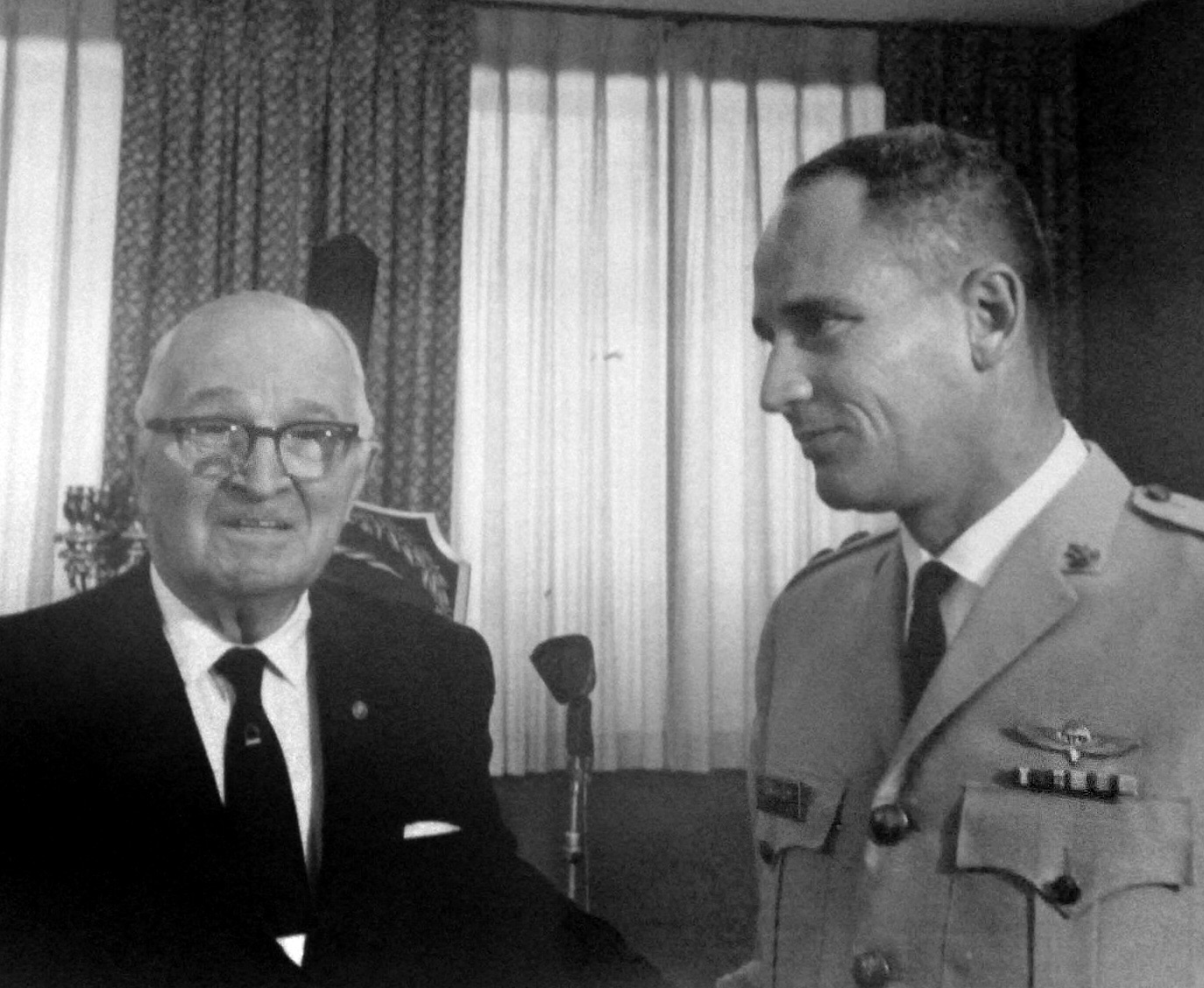 Brig. General Yehuda (IDF) Yehuda Gavish with US President Truman in the White House.